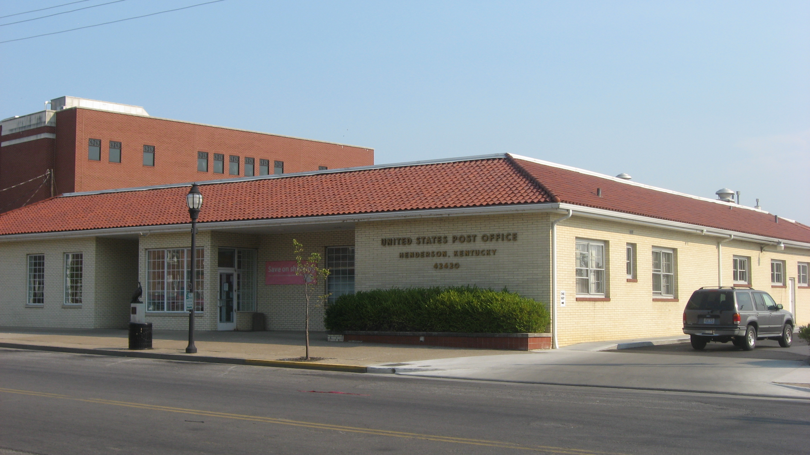 Exterior of the post office in Henderson, Kentucky, United States, located at 102 First Street. The post office complex occupies the location of the E.L. Ehlen Livery and Sale Stable, which is listed on the National Register of Historic Places despite having been destroyed.